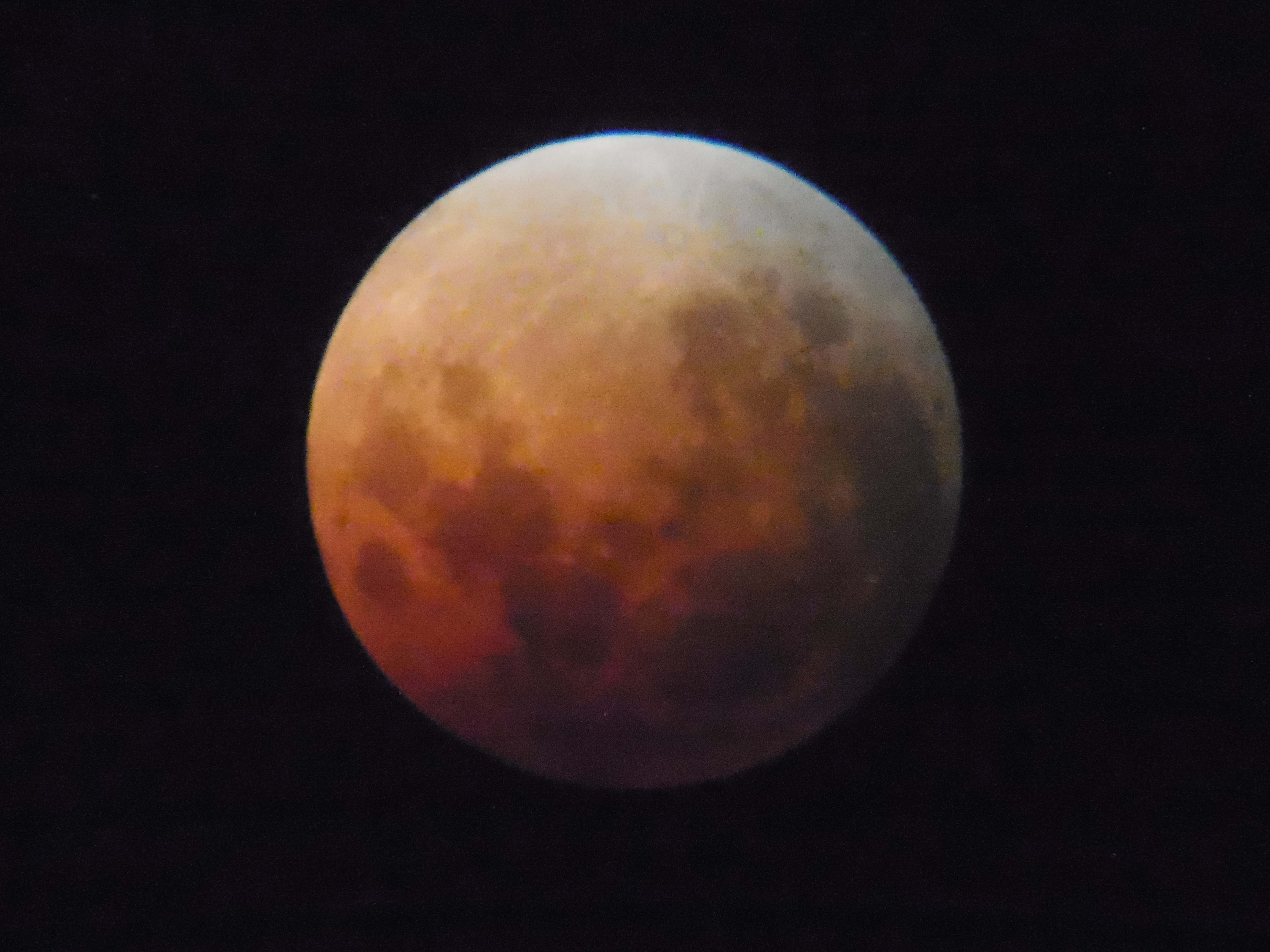 Photo 2 of a series of 3 photos of the January 2018 total lunar eclipse, as seen from Chelsea, Victoria, Australia. This second photo – taken at 12:44am AEDT (UTC+11) – shows the reddish moon fully in shadow. Apologies for the blurry photos, which were crudely taken using a point-and-shoot camera hand-held over the eyepiece of a telescope, and which I have not sharpened or otherwise retouched.